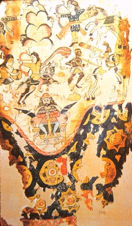 Egyptian woven pattern on a woolen curtain or trousers. Copy of an imported Sassanid silk, which itself was based on a fresco of king Khosrau II fighting against the Ethiopian forces in Yemen.